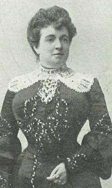 Spanish Actress Matilde Rodríguez